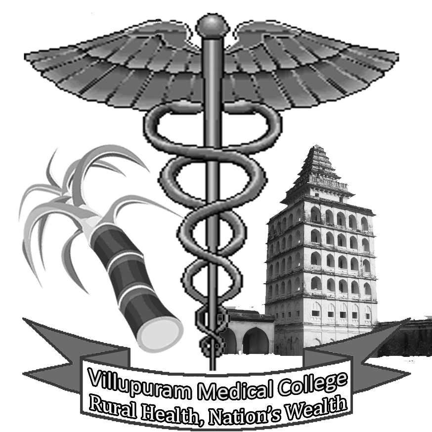 Coat of Arms, Emblem of Villupuram Medical College